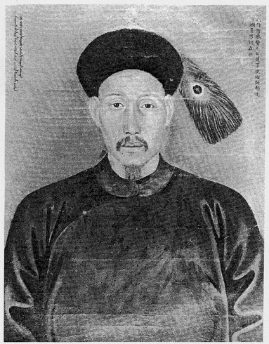 Esentei (额森特), an officer of the Qing Army during Qianlong's era.